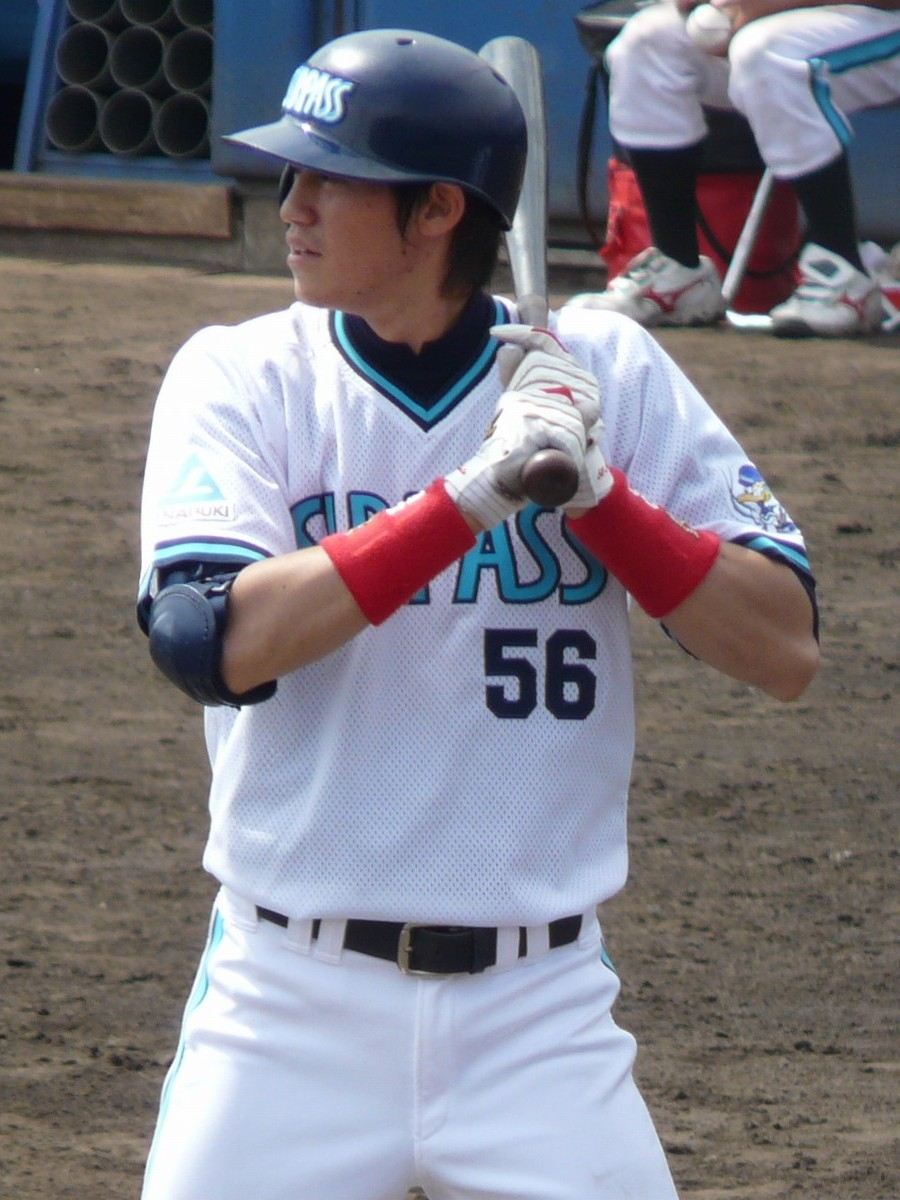 Ryousuke Shibata